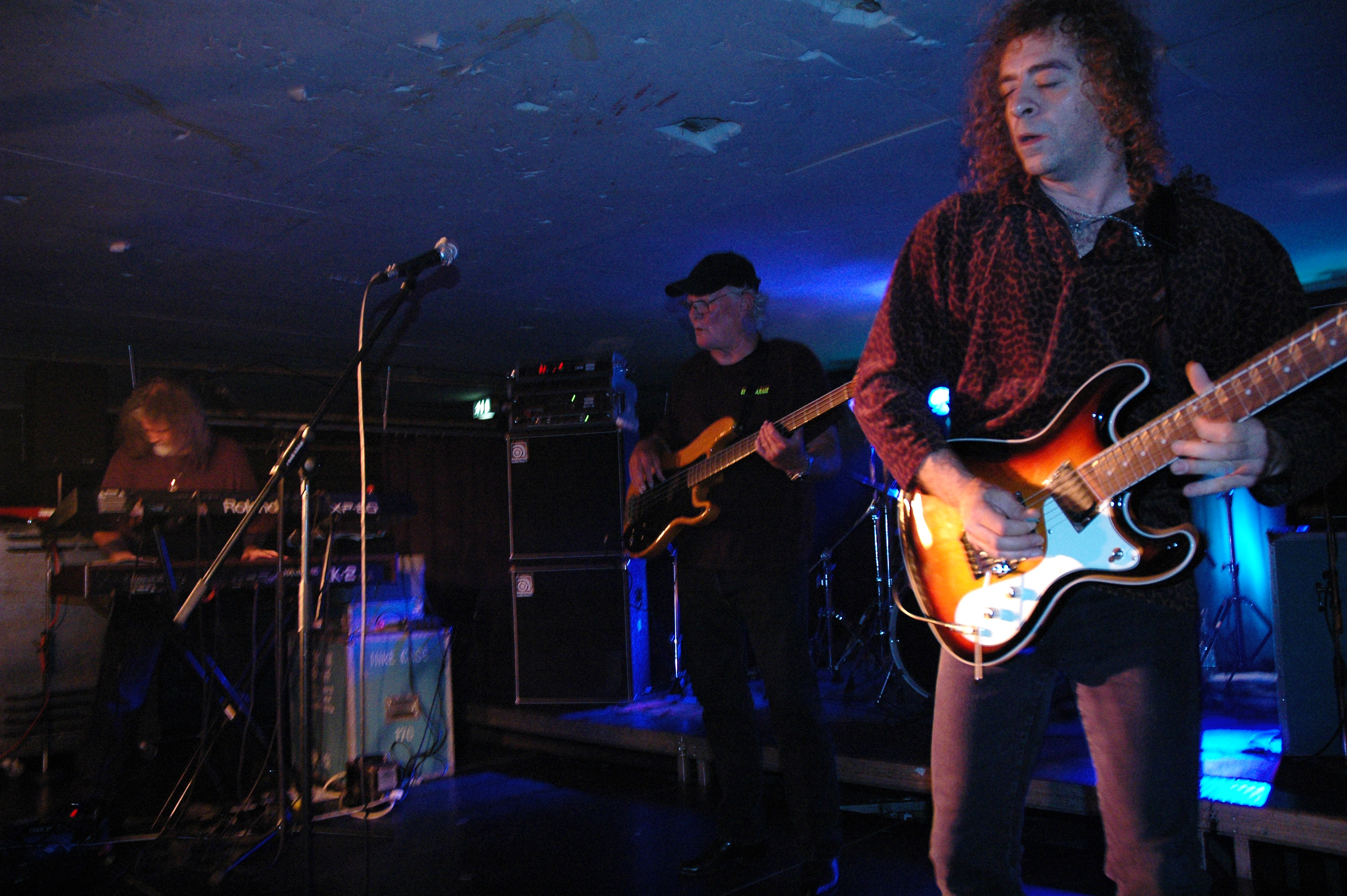 Iron Butterfly live 05.05.2005, (Charlie Marinkovic)